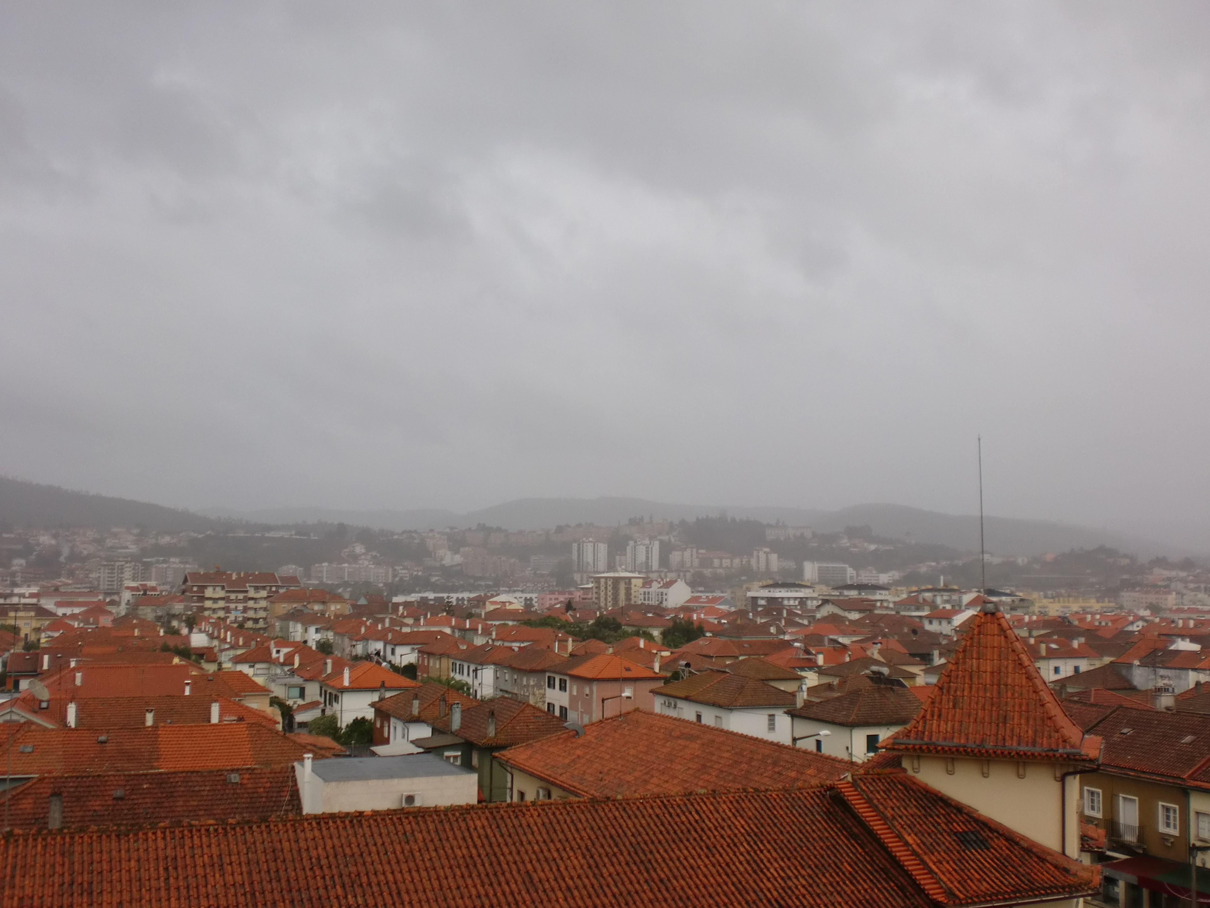 View over B. Norton de Matos, Coimbra, Portugal, on a cloudy day.